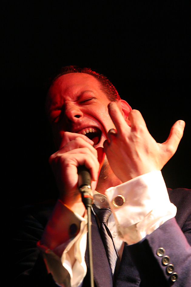 Photograph of Jack Terricloth, the lead singer of the band "World/Inferno Friendship Society" live in Bremen.